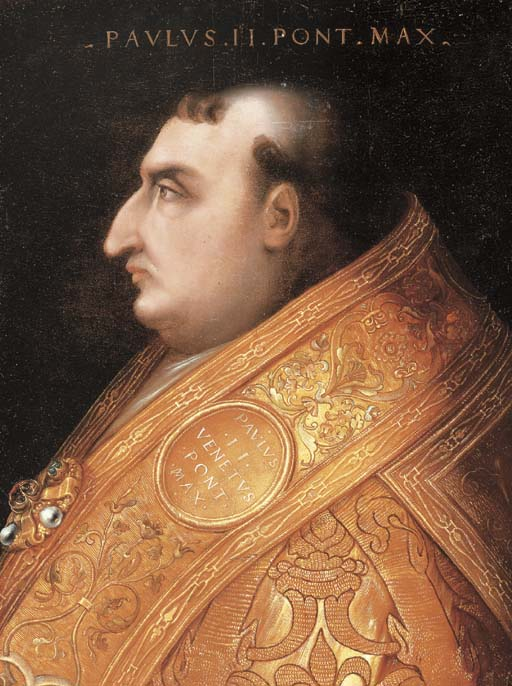 Portrait of Pope Paul II (1417-1471)